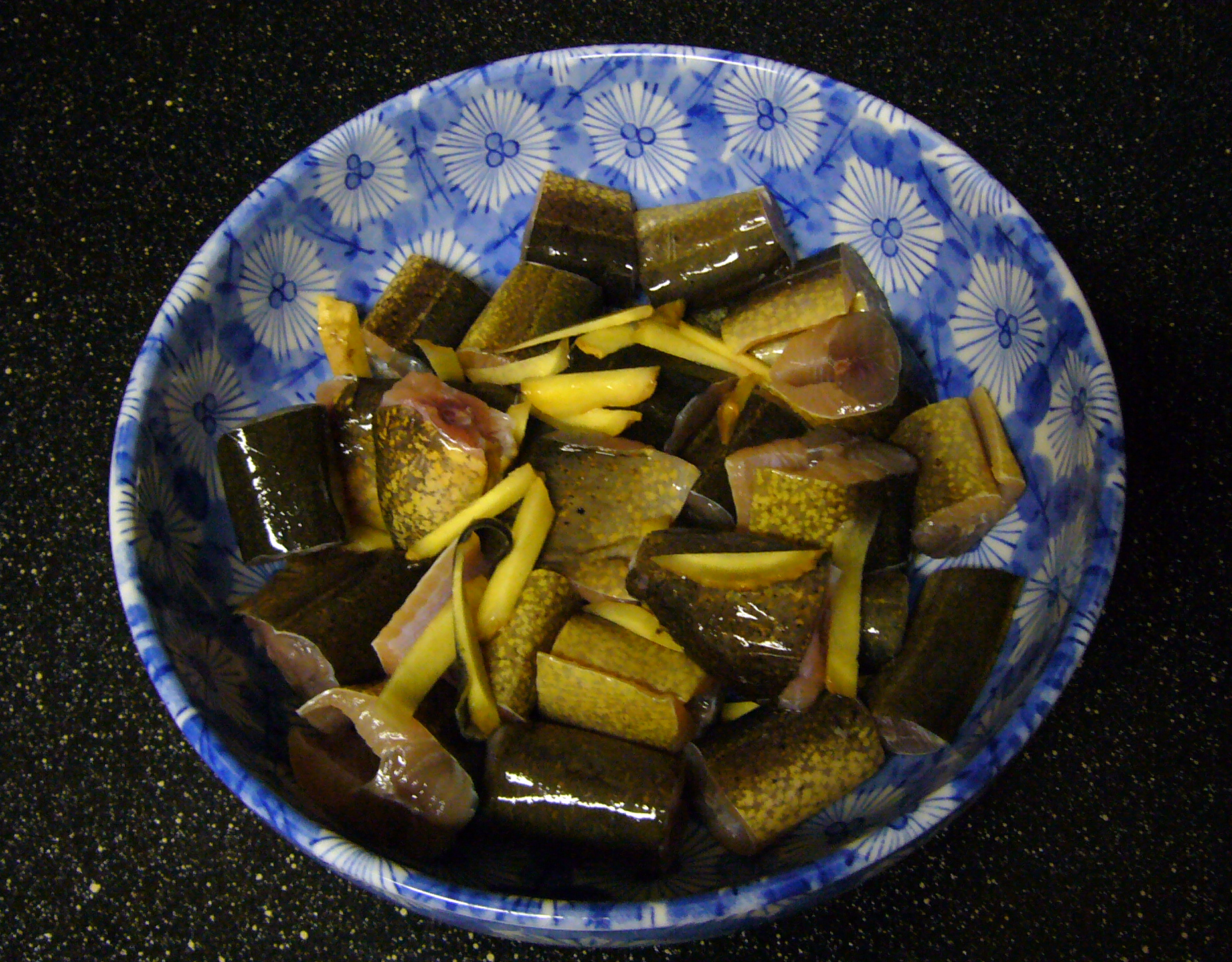 Matelote of eels